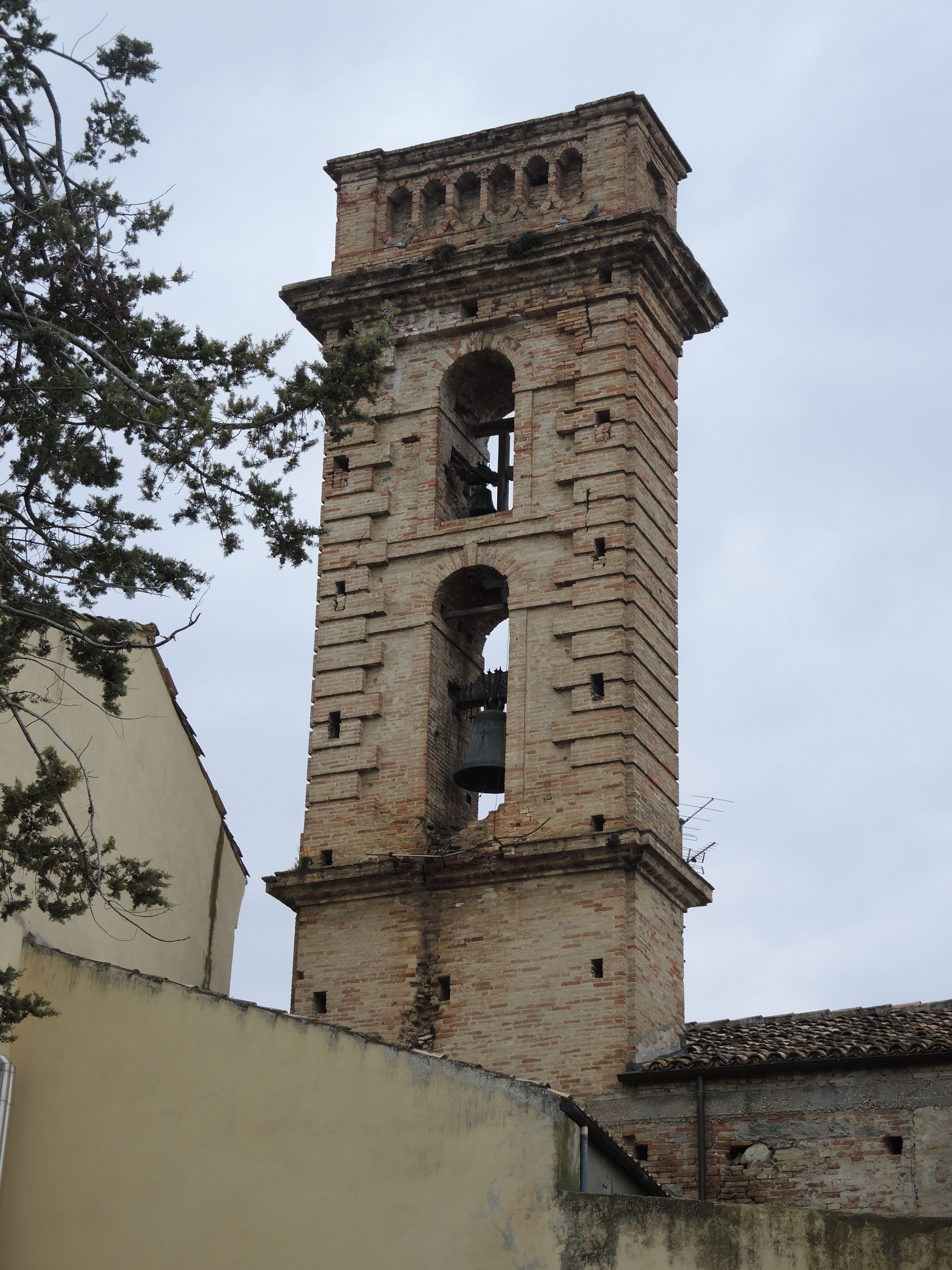 Penne: Convento delle Suore Gerosolimitane dell'Ordine di Malta